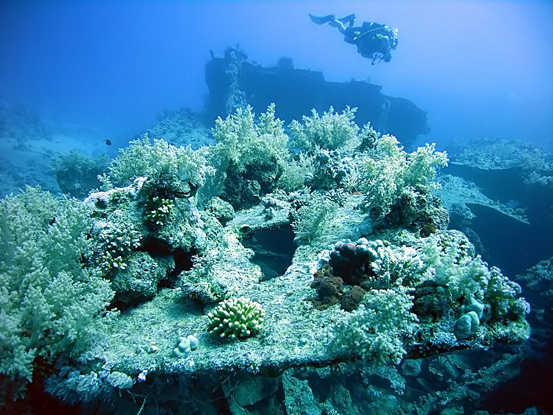 Corals at the wreck of Dunraven, Ras Mohammed, Sharm el-Sheikh, Egypt